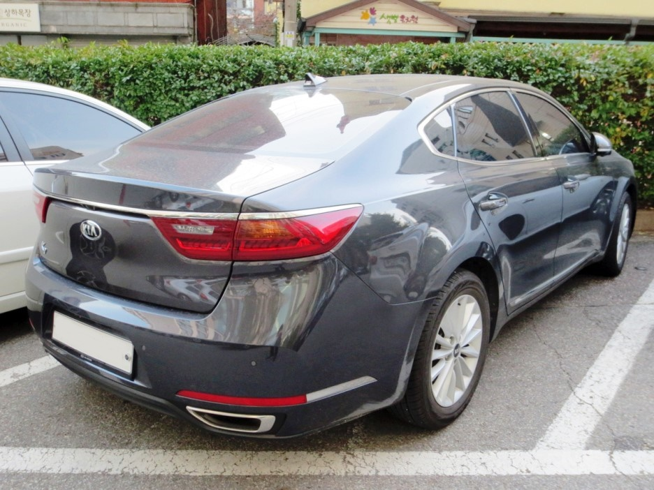 kia k7